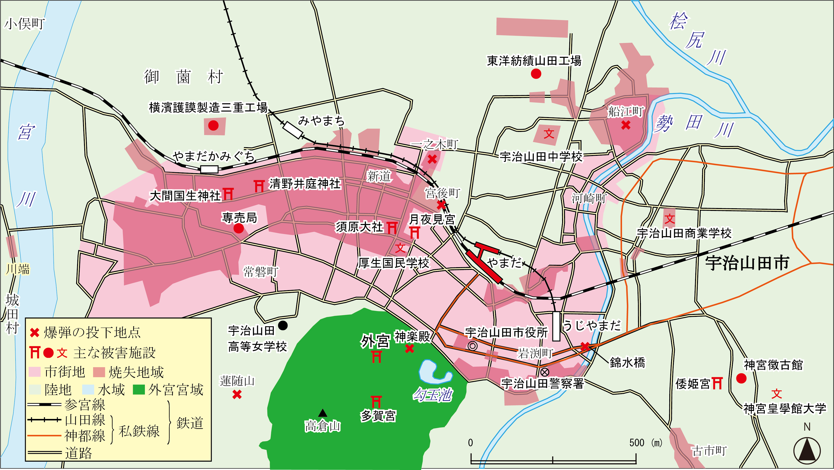 This is the map about the Bombing of Ujiyamada in 1945. Base map is OpenStreetMap. I also used these materials: YAMAGUCHI Keiichiro et, al. eds. (1973): "Japan Zushi Taikei Kansai II Mie, Shiga, Kyoto and Nara prefecture"Asakura Publishing Co., Ltd., Tokyo, Japan. "Ise Jingu Annai Zu"(Published in 1940, Contained in "Ise burari", a smartphone application) I also used the book to draw the area which was burned out: Mie prefecture ed. (1988):"Mie-ken Shi Shiryo-Hen Kindai 2 Seiji and Gyousei II"Mie prefecture, Tsu, Japan.